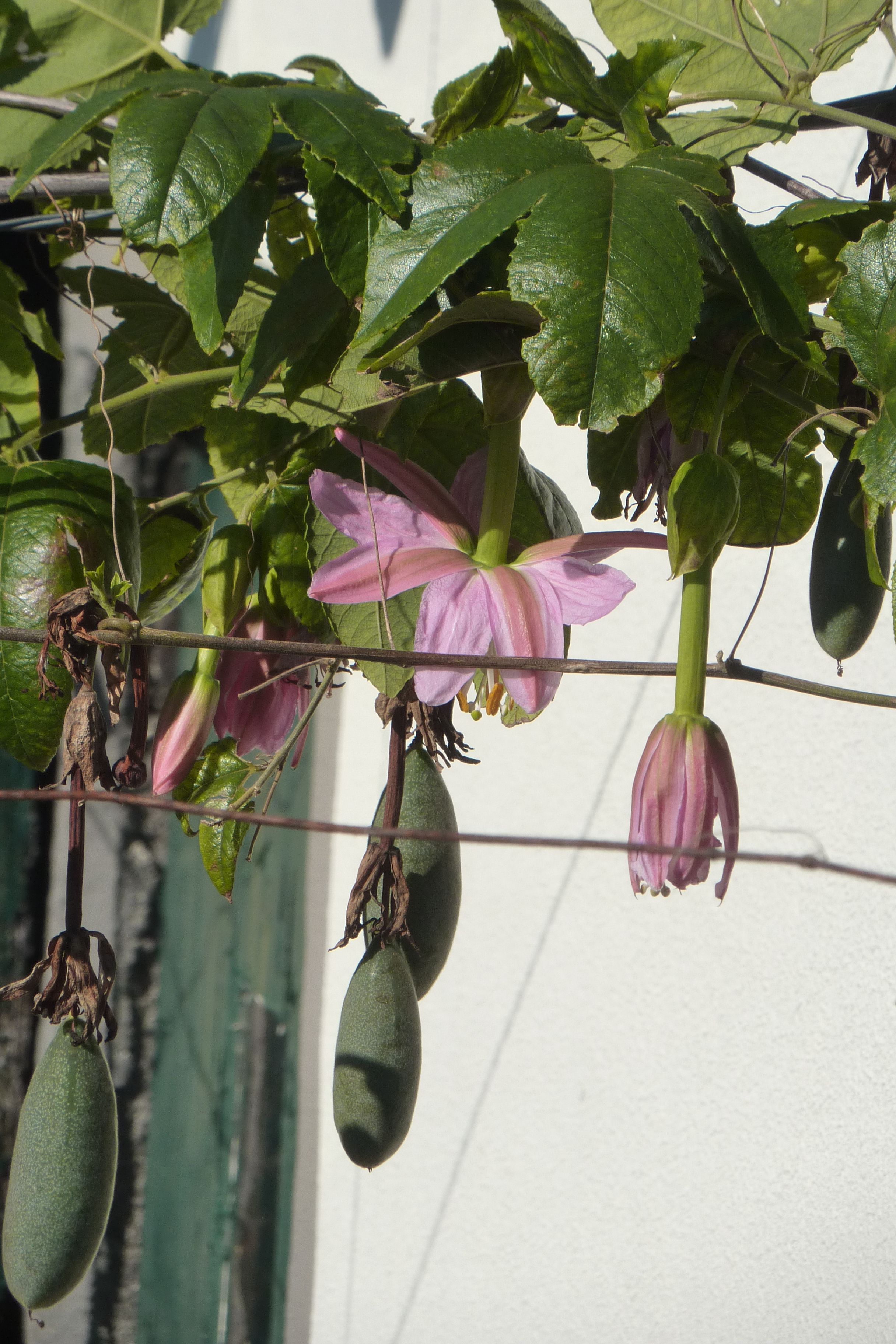 Madeira - passion flower and fruit